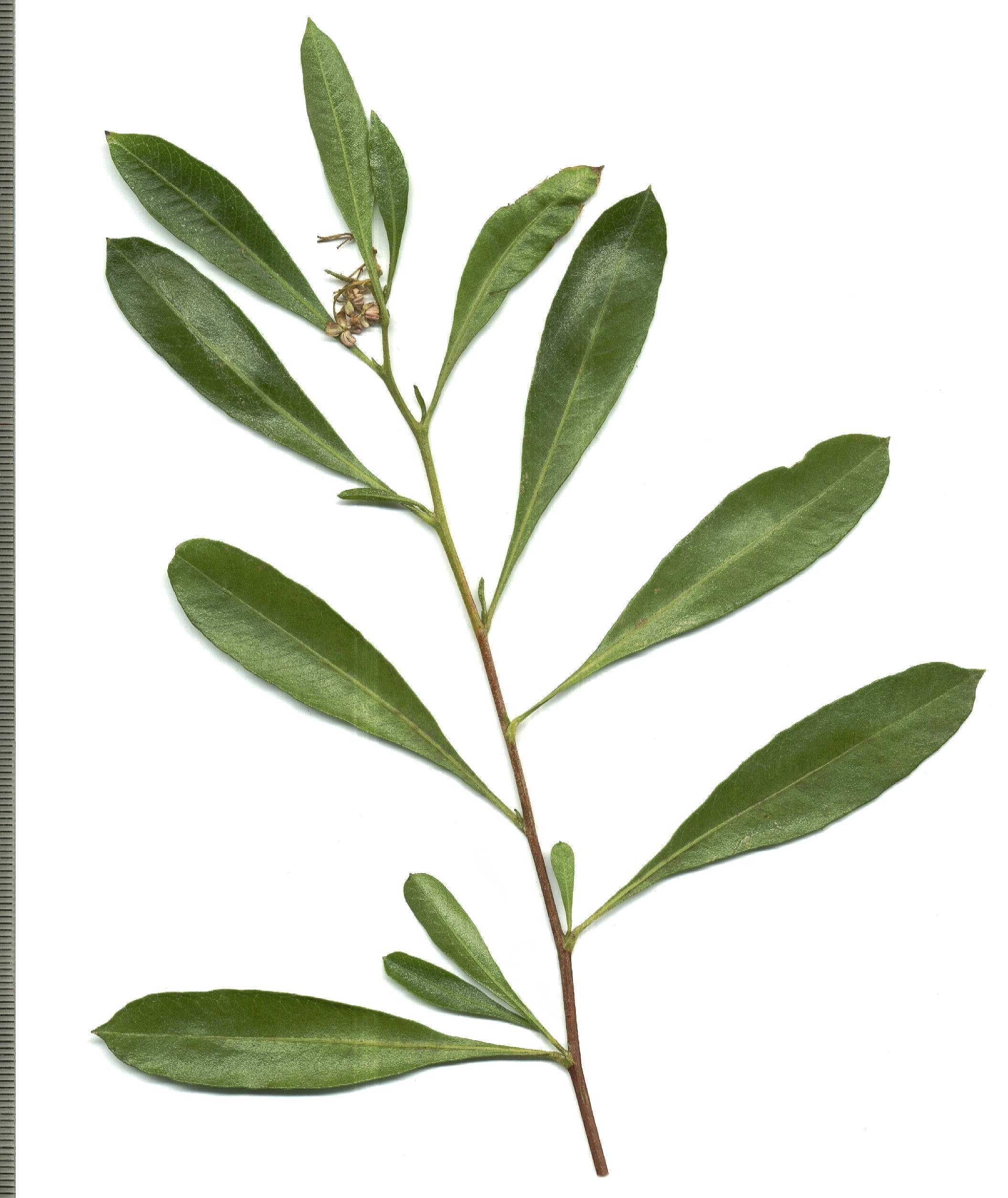 Twig of a Narrow-leaved sand olive, collected from a rocky ridge in Faerie Glen Nature Reserve, Pretoria. The present subspecies of the Sand olive occurs from southern to West Africa, and in eastern Australia. Some male flowers are visible. Flowers are reduced and female flowers are wind pollinated. Ruler shows millimeters. ↑ Harris, Shireen. Dodonaea viscosa Jacq. Retrieved on 10 March 2012.